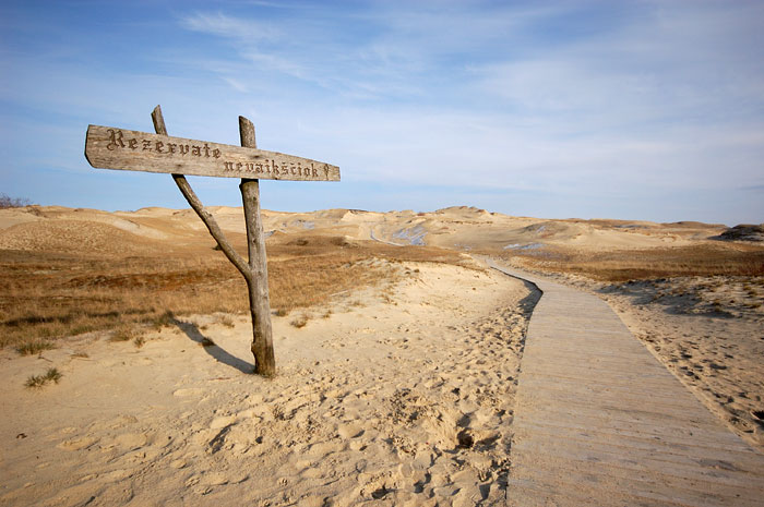 Grey dunes in Neringa (the sign reads "No walking in the reserve")